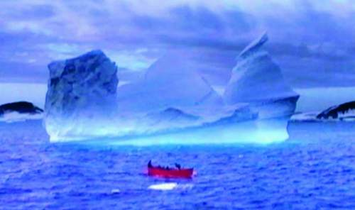 Voyage d'hiver